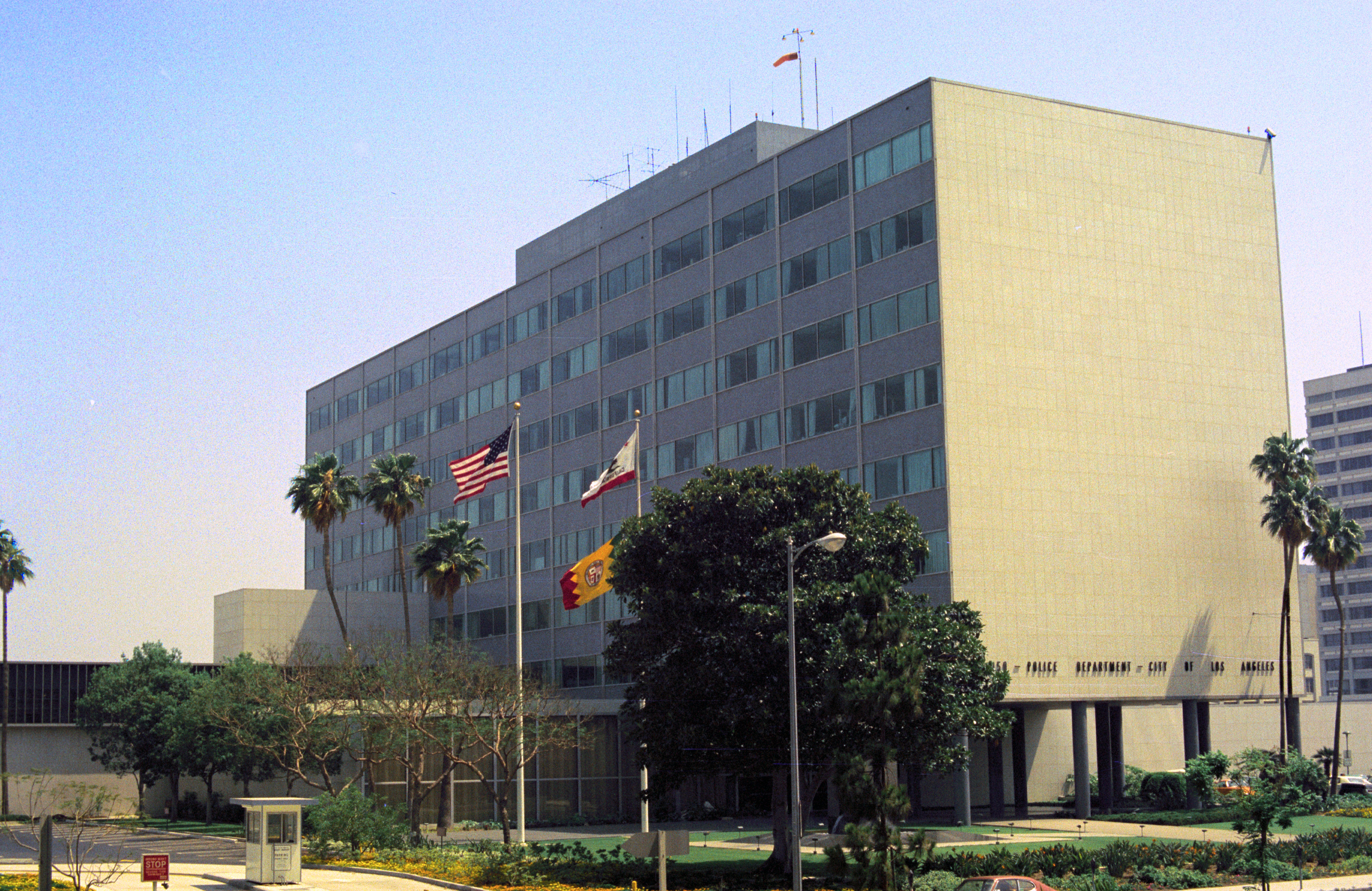 Construction for the building at 150 N. Los Angeles St. was started in December 1952 and was completed in late 1955.